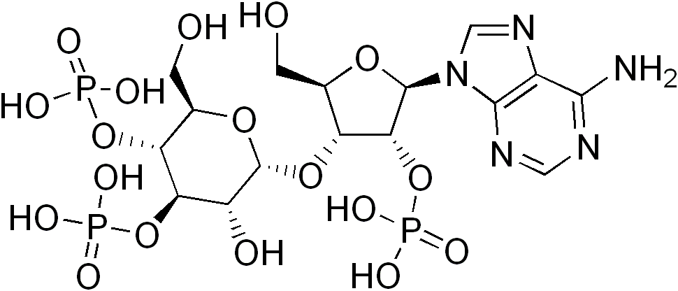 chemical structure of adenophostin